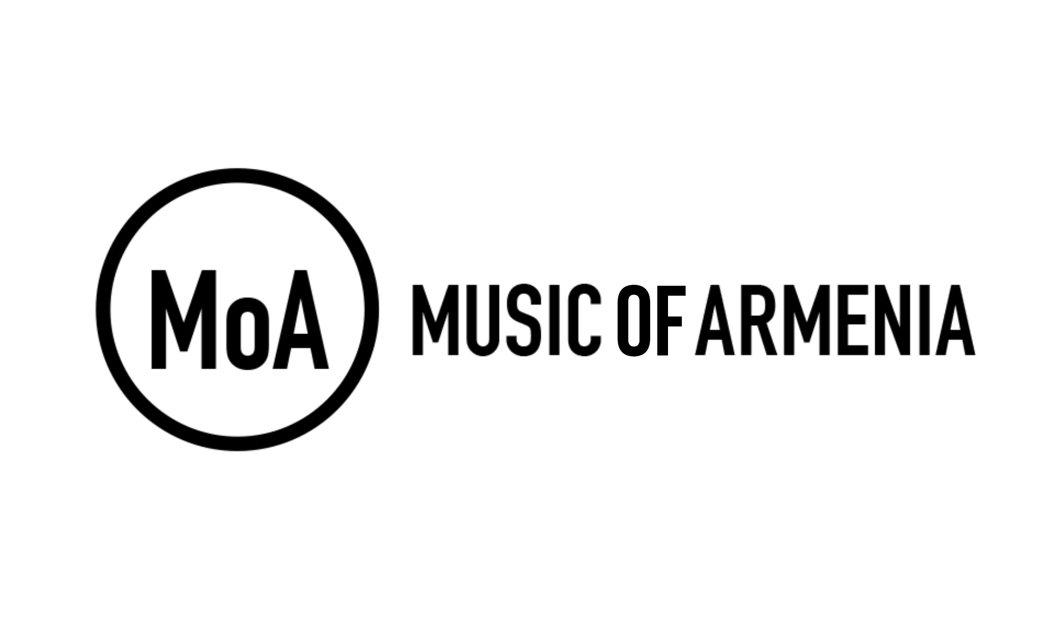 This is the logo of the Music of Armenia website with a black background.